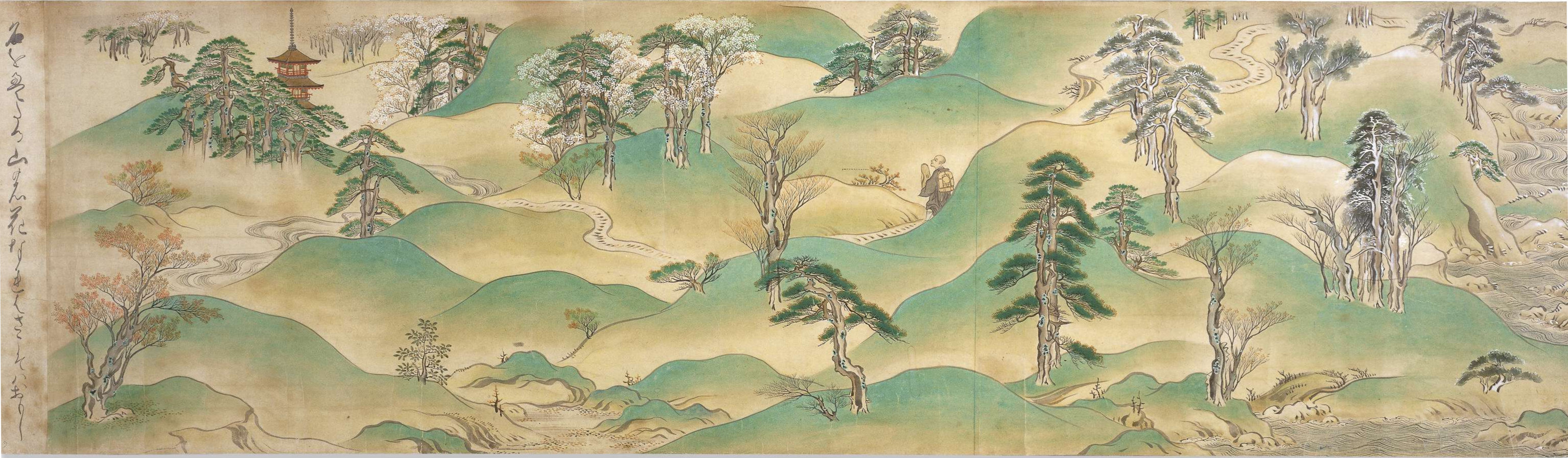 Saigyo Monogatari Emaki - British Museum scroll.